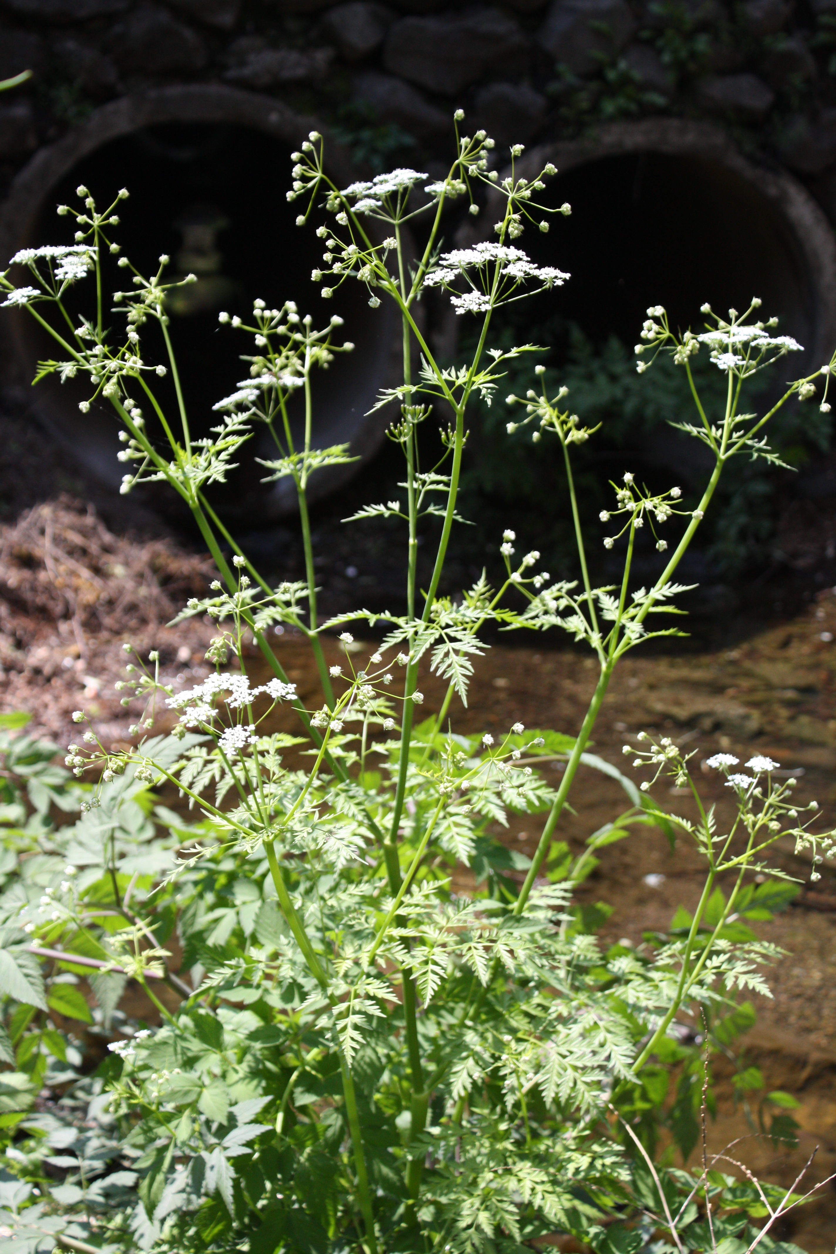 Anthriscus sylvestris